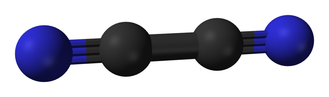 Ball-and-stick model of the cyanogen molecule, C2N2. Gas-phase electron diffraction data from CRC Handbook of Chemistry and Physics, 88th edition. Image generated in Accelrys DS Visualizer.